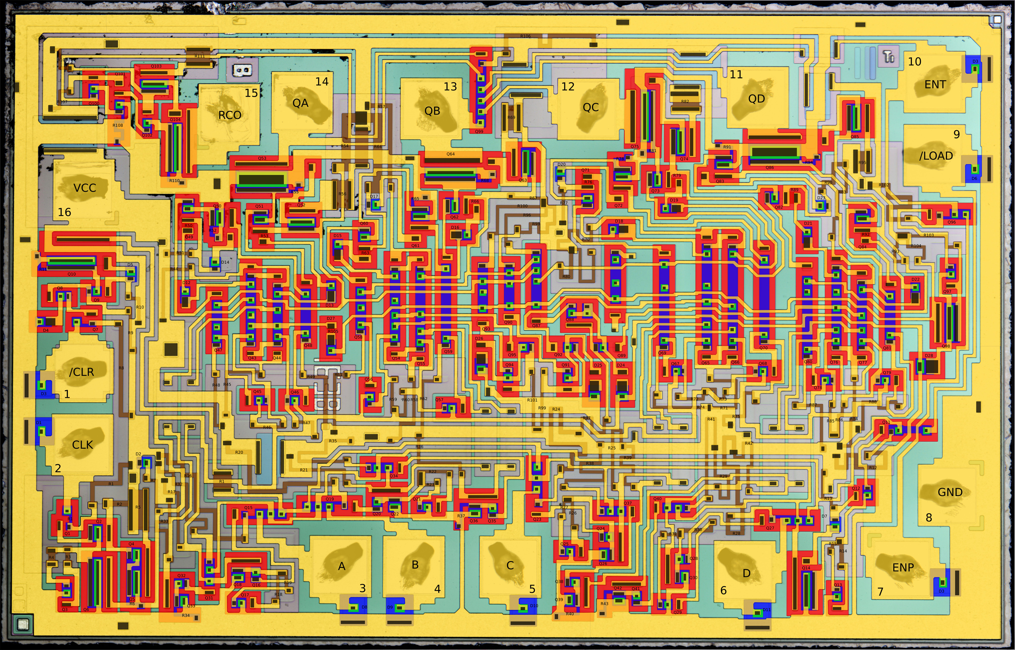 Annotated die photo of the Texas Instruments 54163 date code 0423